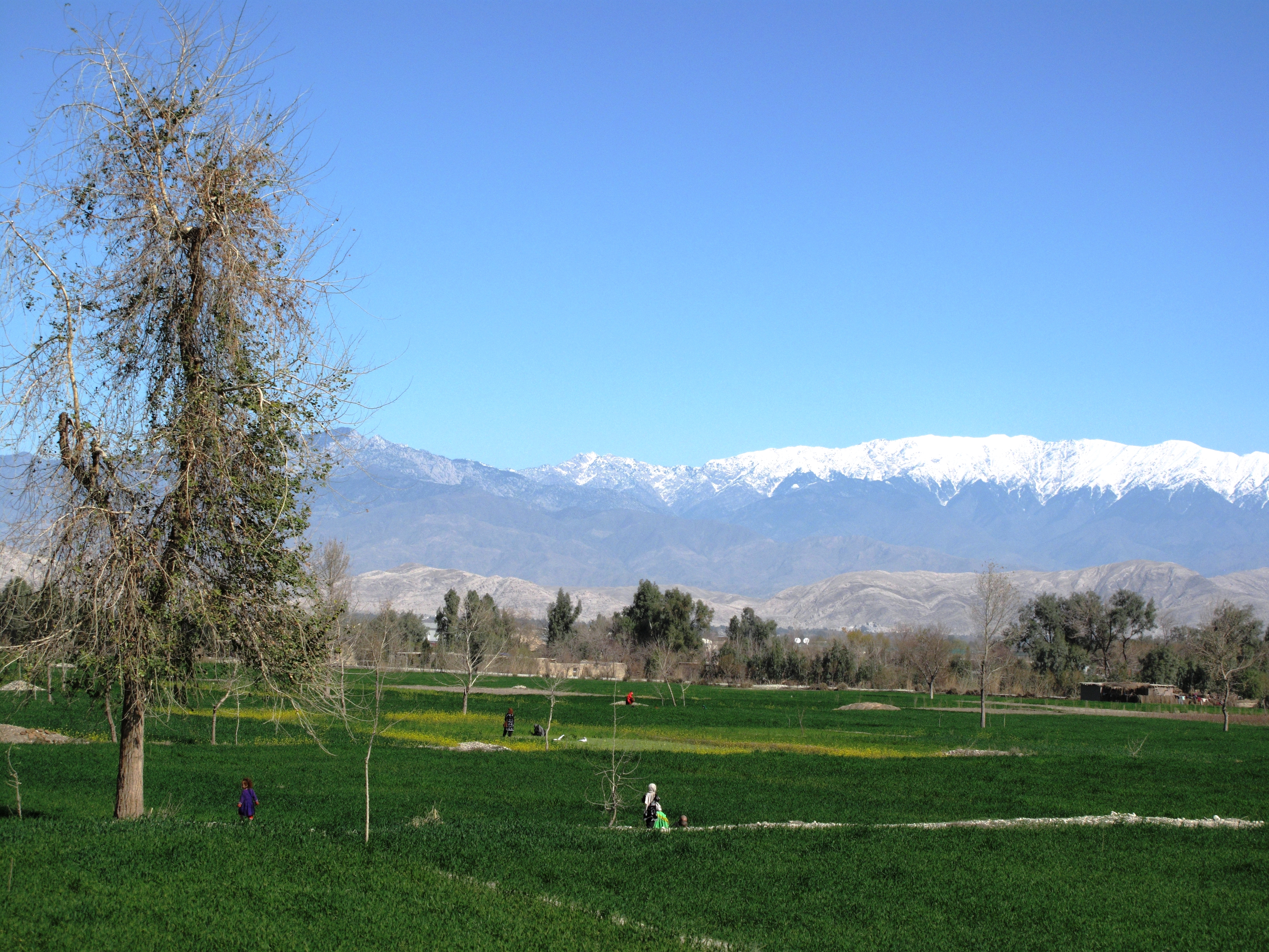 View of the snow-capped White Mountains from the Jalalabad – Islamabad Highway.